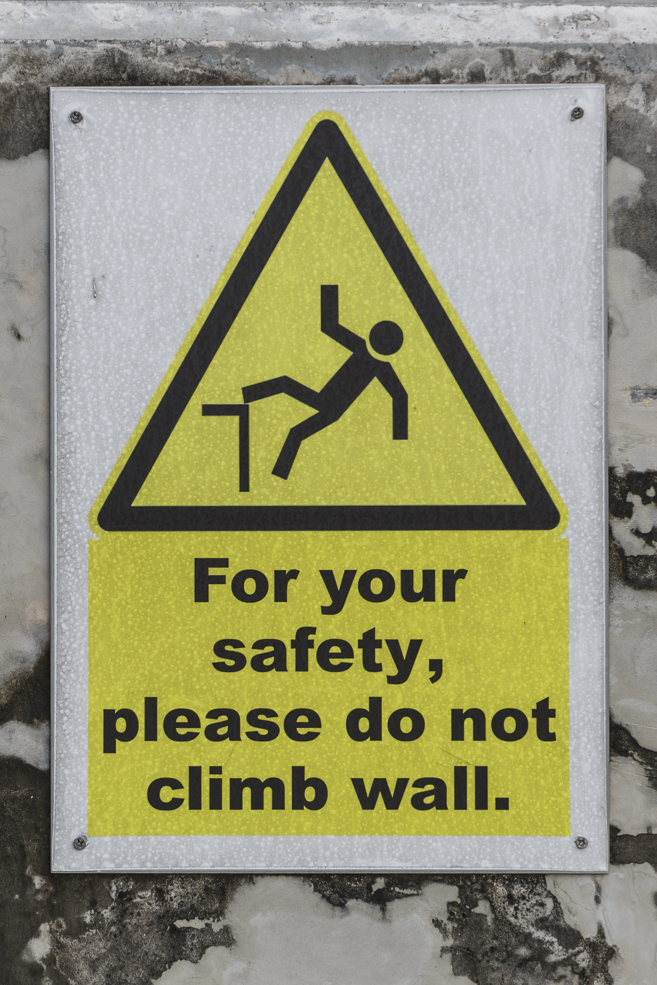 Singapore: Safety sign "For your safety, please do not climb wall"